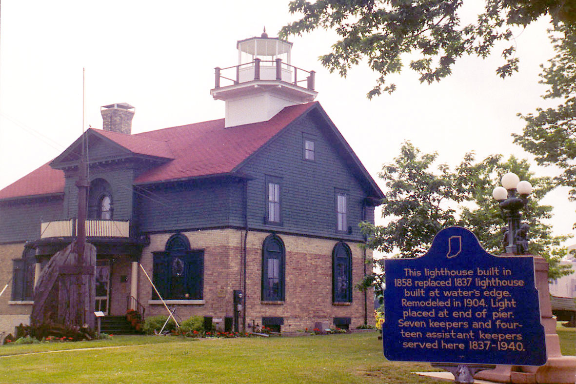 I took this picture